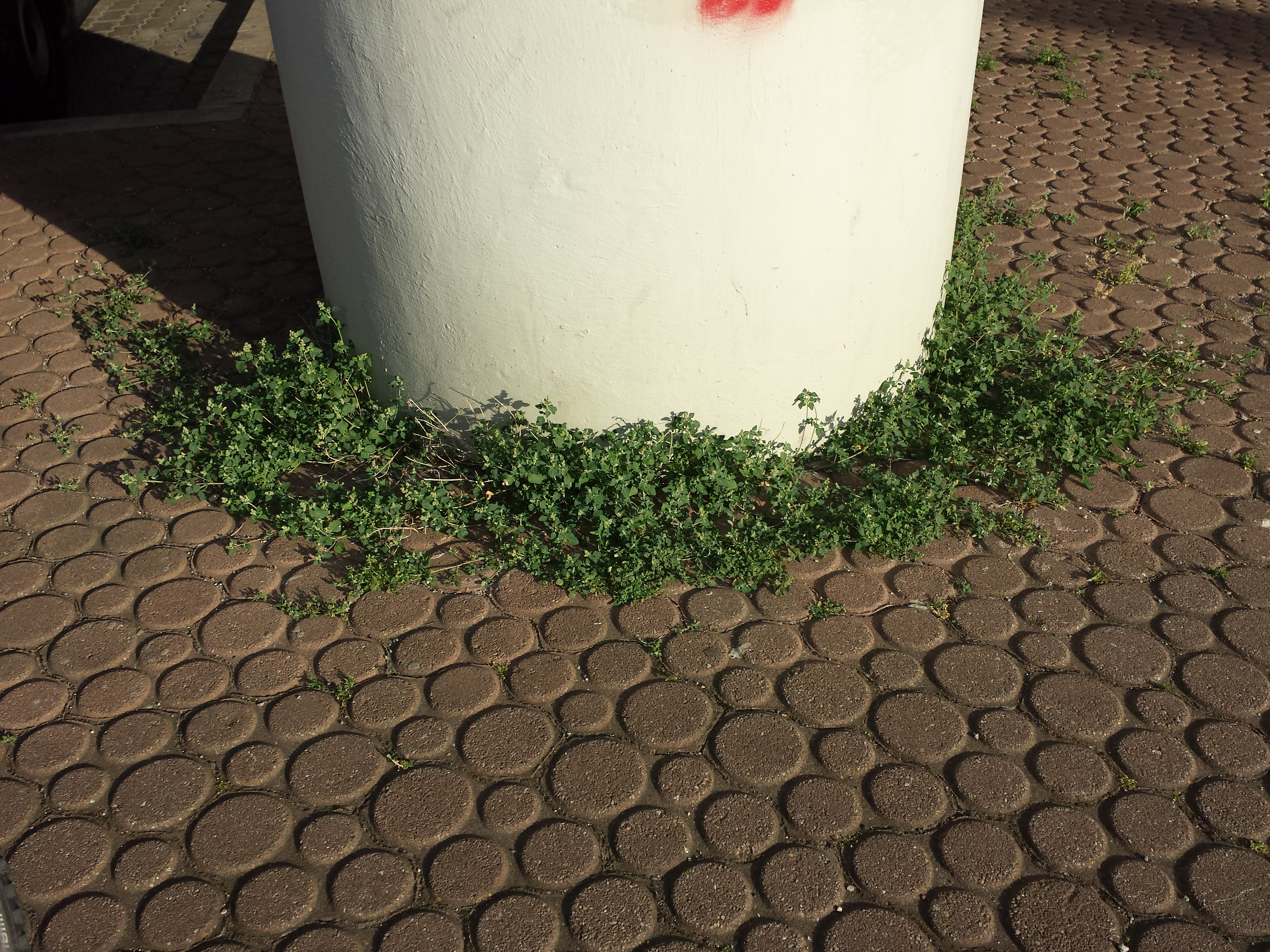 Habitat Taxonym: Chenopodium vulvaria ss Fischer et al. EfÖLS 2008 ISBN 978-3-85474-187-9 Location: Kagran, Vienna-Donaustadt - ca. 160 m a.s.l. Habitat: wall base